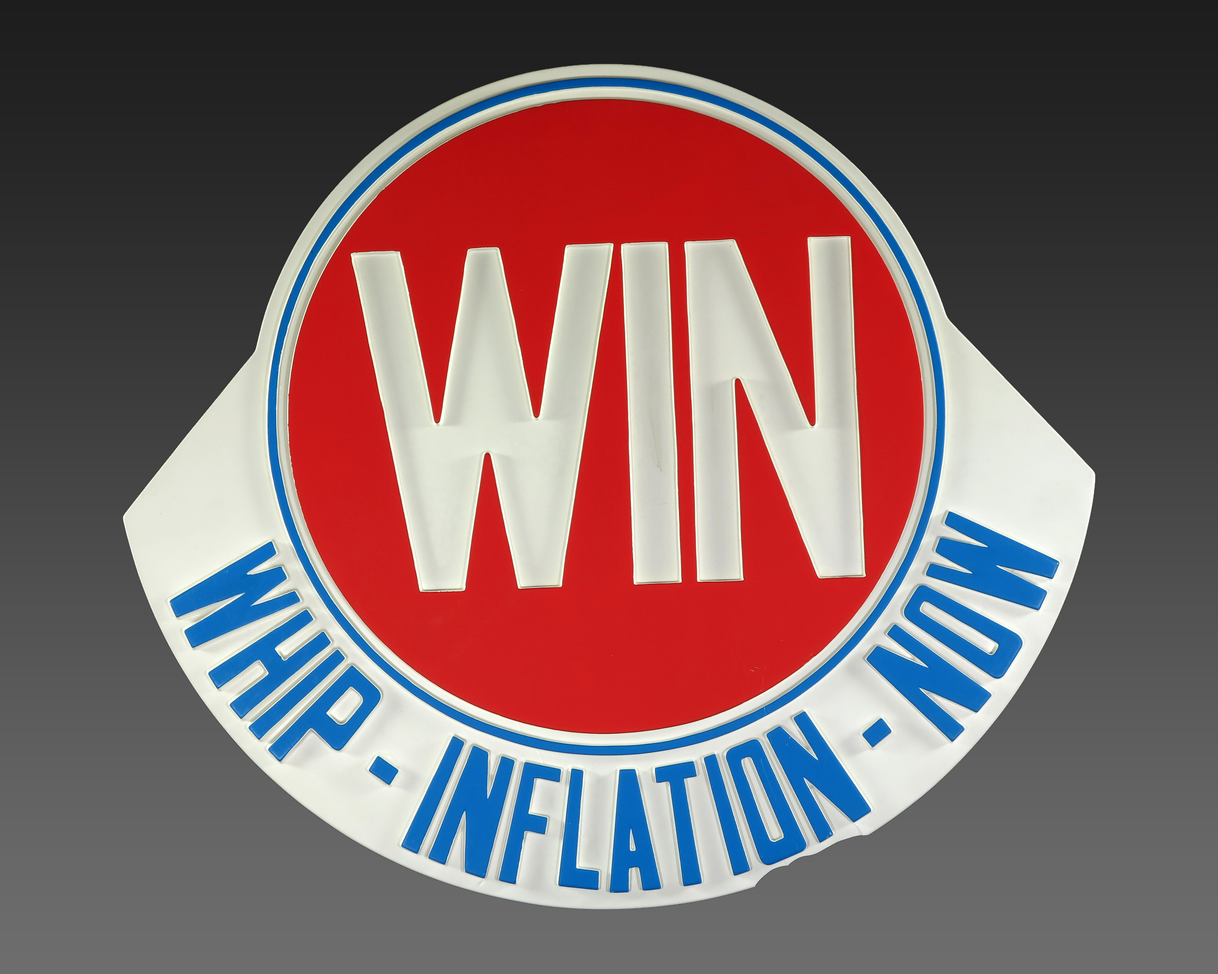 White, plastic Whip Inflation Now (WIN) sign. Small wooden blocks adhered to the back would be used for mounting the sign. The donor mailed this sign, along with another, and thousands of WIN buttons to President Gerald R. Ford in support of the WIN Program.